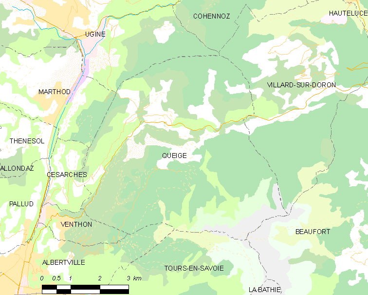 Map of French municipality